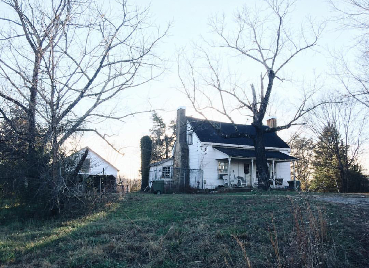 The Walter Scott Irving farmhouse, located along the Dan River in the Shiloh community of Stoneville, Rockingham County, North Carolina. The house has been owned by the Irving, Strong, and Webster smilies. It operated as the post office for the former community of Waddell, NC.